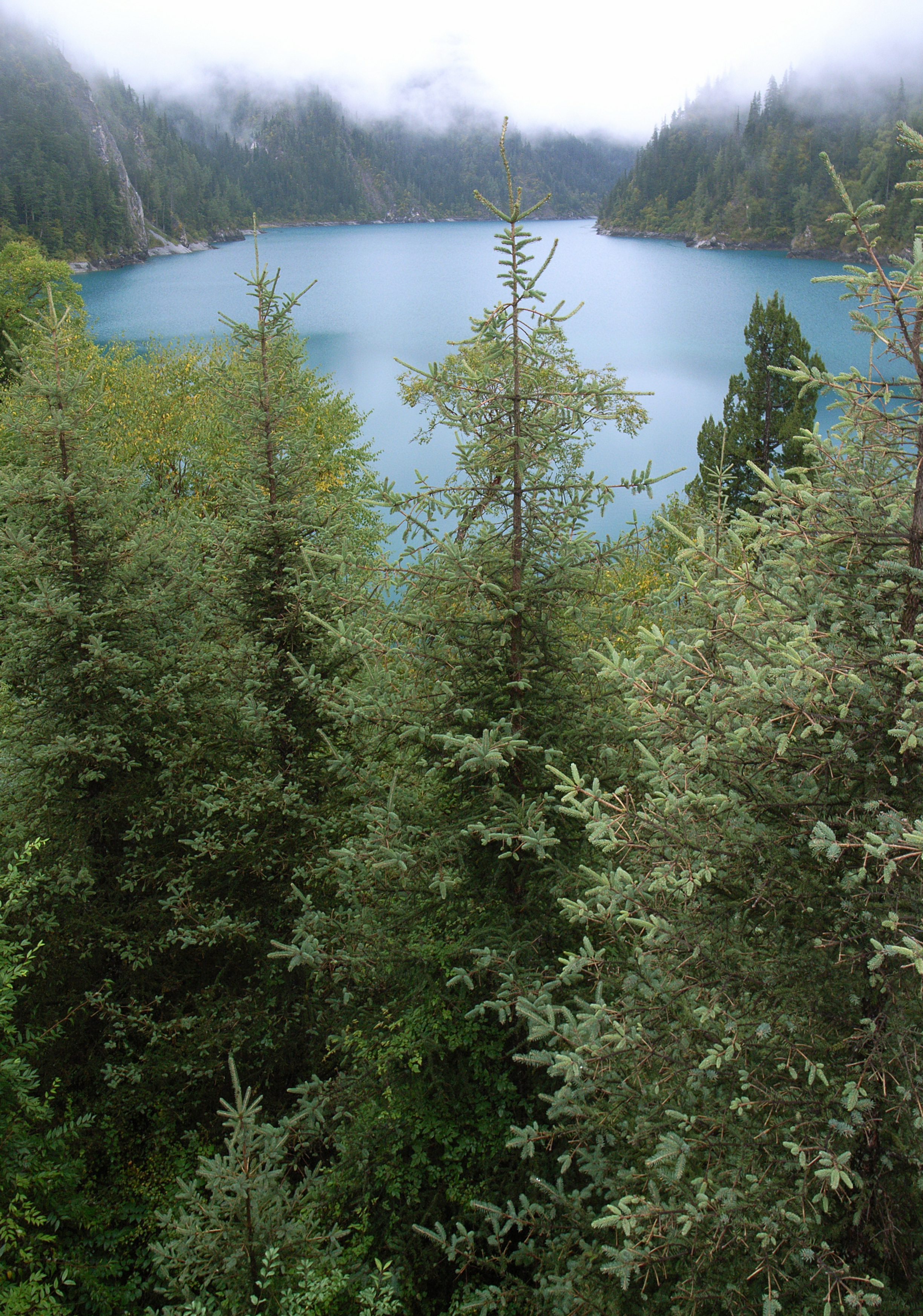 Young Picea asperata trees, Jiuzhaigou Valley, Sichuan, China.